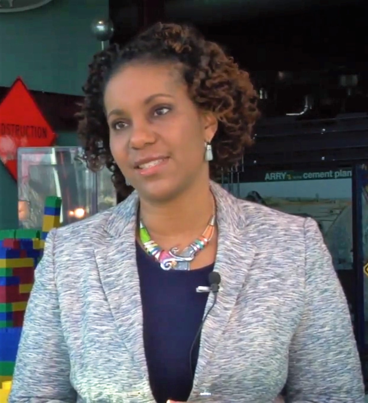 National Assessment Governing Board member Tonya Matthews, president and CEO of the Michigan Science Center, comments on the state of STEM achievement for black girls and what we can do both inside and outside of the classroom to improve it.